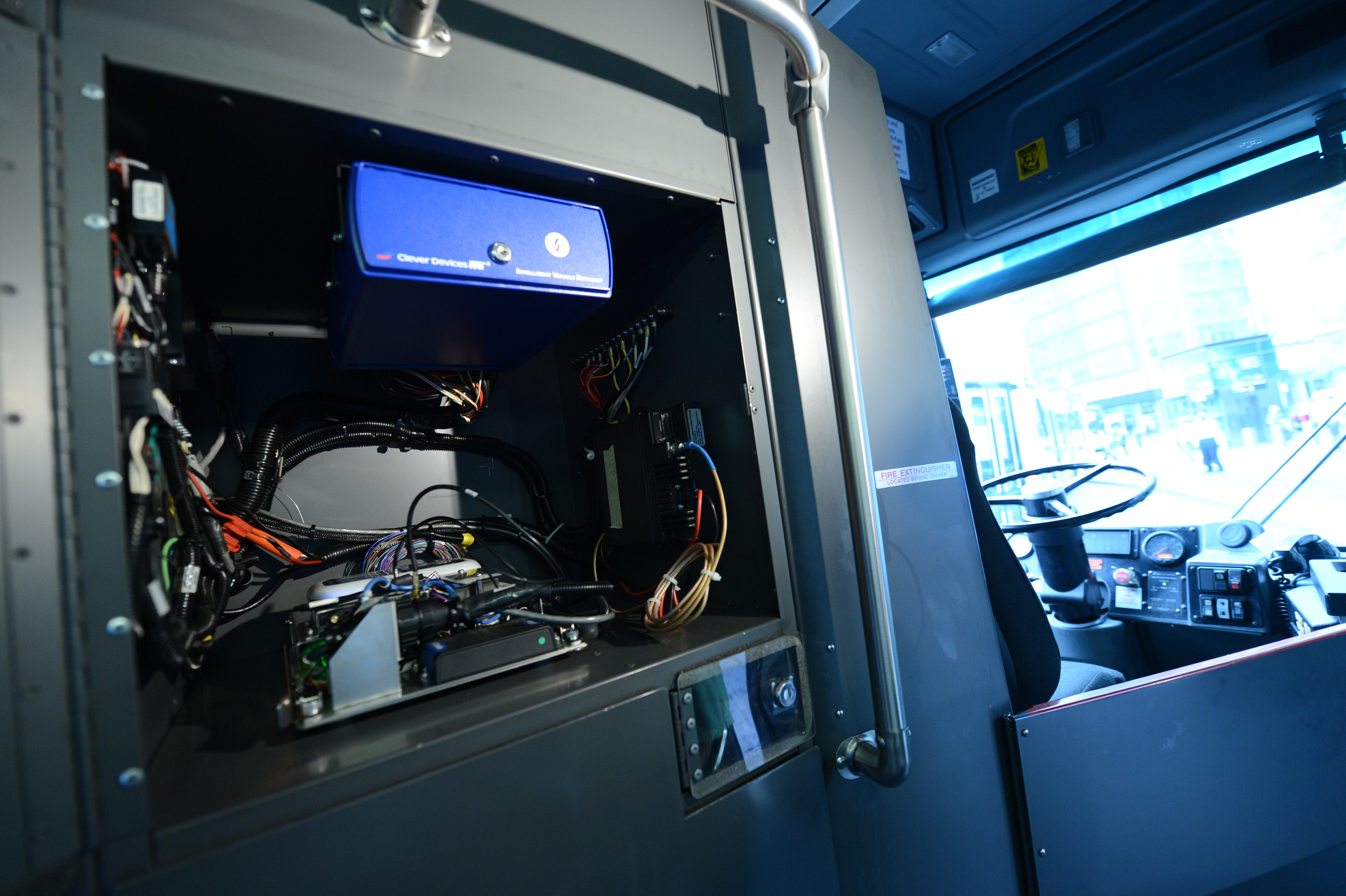 MTA Bus Time was launched for Manhattan buses today, October 7, 2013, with an announcement in Columbus Circle. Photo: Marc A. Hermann / MTA New York City Transit